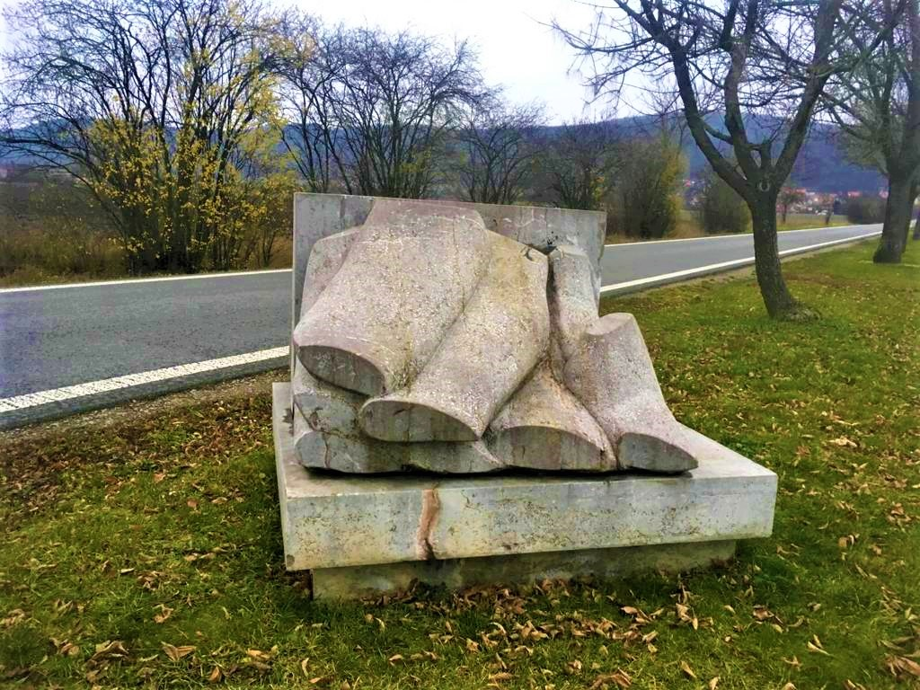 Statue of "Situation" by Miro Žáčok